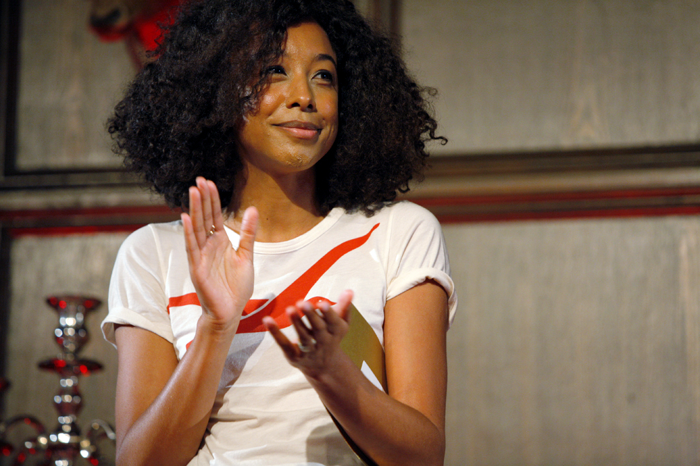 Corinne Bailey Rae_Mojo Awards 2009